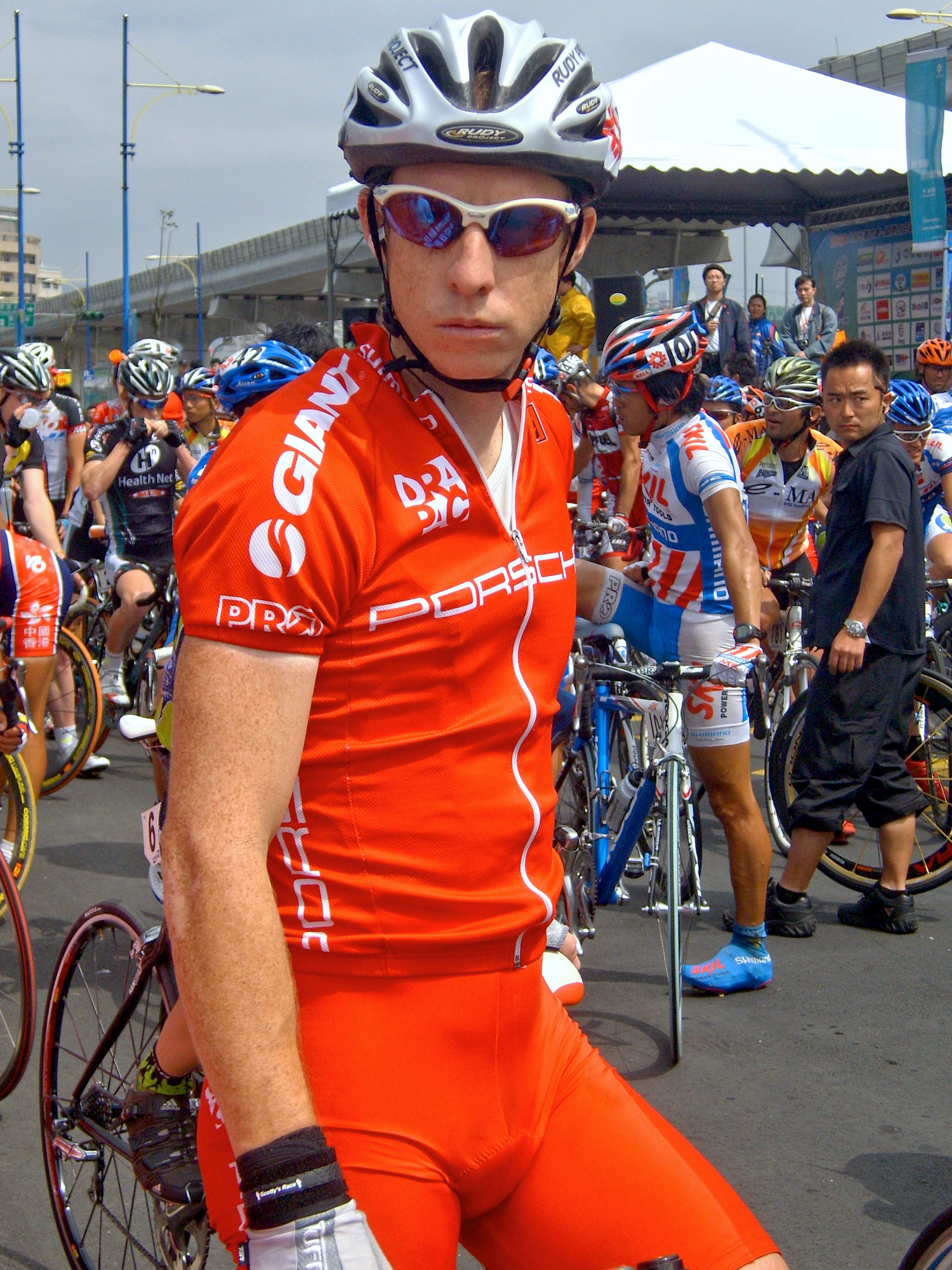 2008 Tour de Taiwan TWTC Nangang Stage: Peter McDonald, a cyclist from Drapac Porsche Cycling Team.